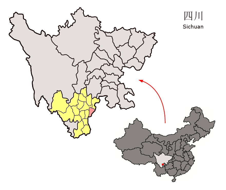 Location of Jinyang County (pink) and Liangshan Prefecture (yellow) within Sichuan province of China Map drawn in september 2007 using various sources, mainly : Sichuan province administrative regions GIS data: 1:1M, County level, 1990 Sichuan Counties map from